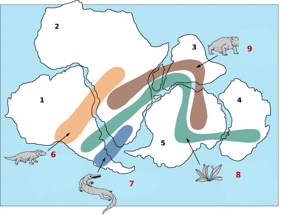 Internationalization of the diagram Snider-Pellegrini-Wegener-fossil-map 1-South-America 2-Africa 3-India 4-Australia 5-Antarctica 6-Fossil remains of Cynognathus, a Triassic land reptile, approximately 3m long. 7- Fossil remains of the freshwater reptile Mesosaurus 8-Fossil of the fern Glossopteris found in all of the southern continents show that they were once joined 9-Fossil evidence of the Triassic land reptile Lystrosaurus